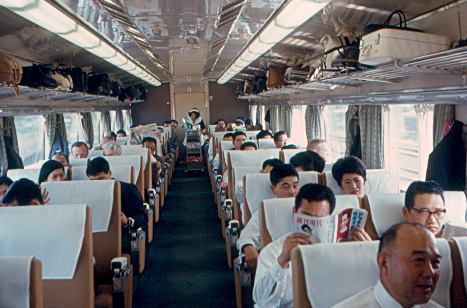 Interior of a first class car on a 0 series shinkansen train